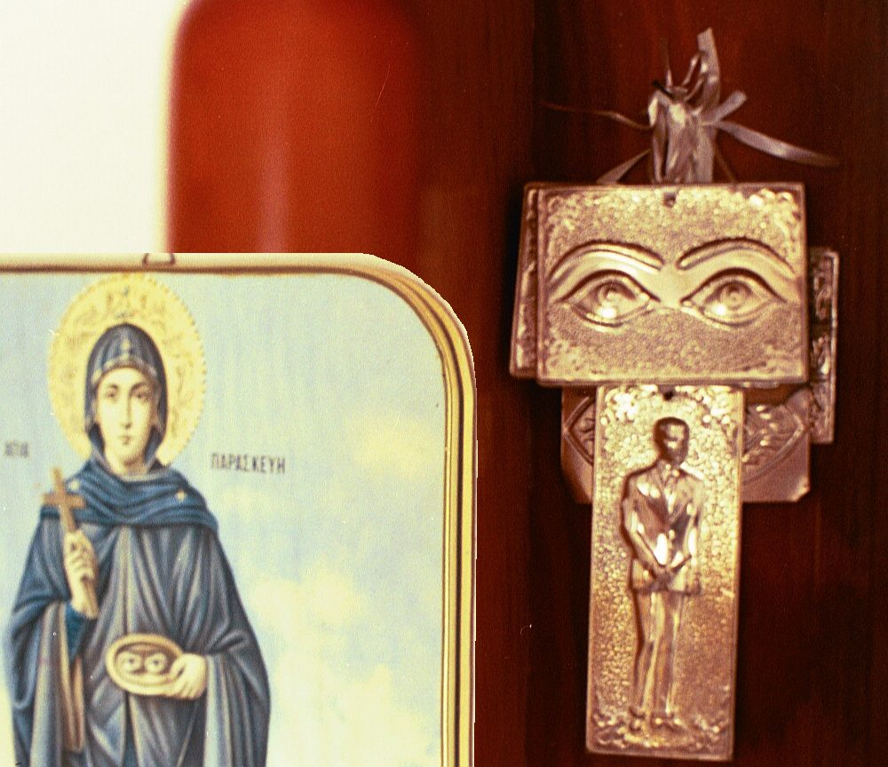 An ikon of Aghia Paraskevi and some votive objects - these have a specific name: tamata. Photographed in the chapel dedicated to her (see below) above the Skotino cave, Iraklio, Kriti in 2001 May. A life of Aghia Paraskevi.